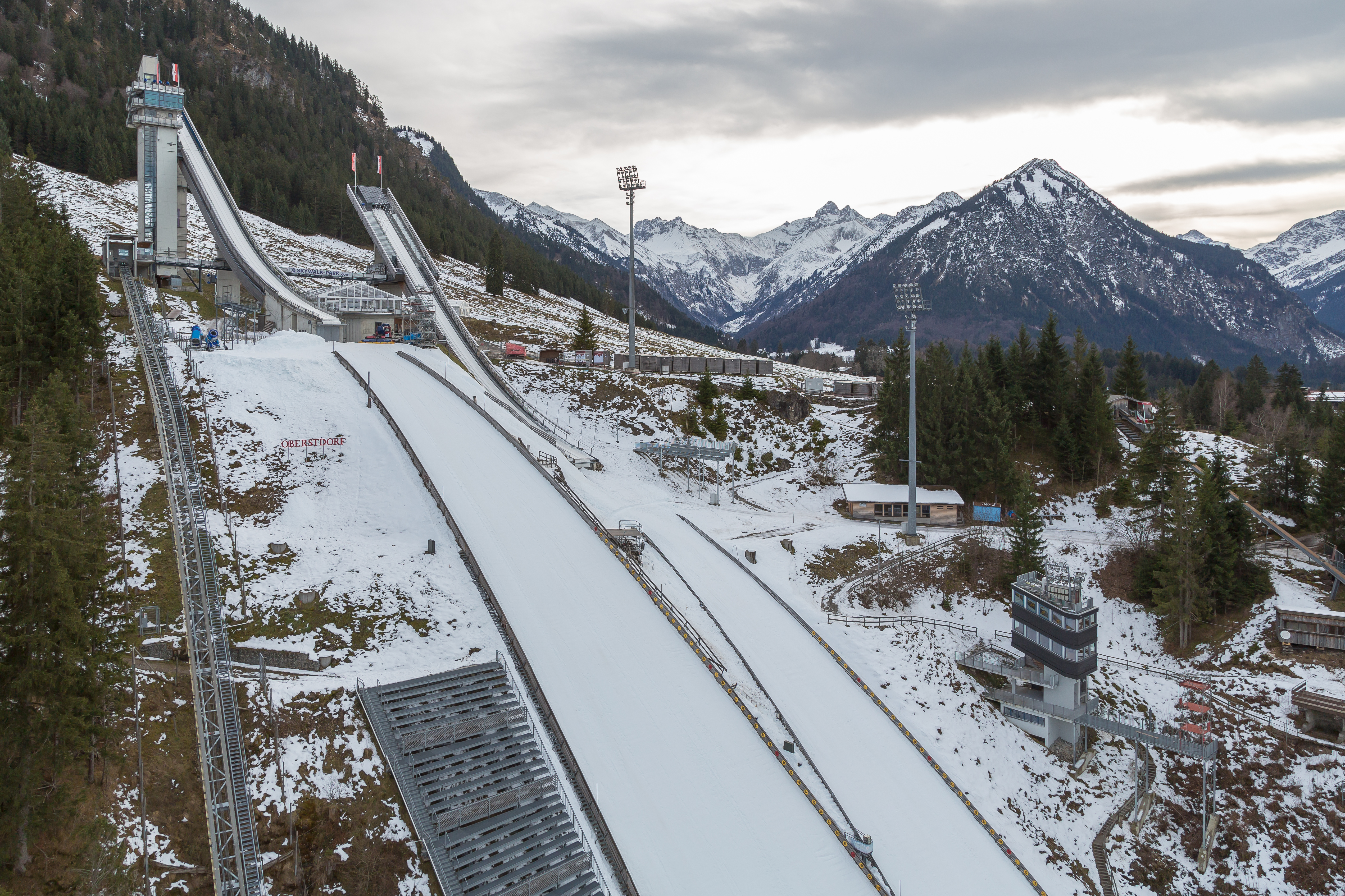 Oberstdorf, Germany: Schattenbergschanze, a jump facility for ski-jump